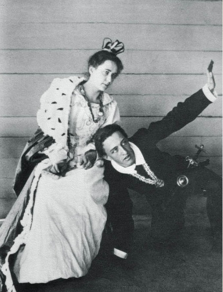 Lubov Blok. Scene from W. Shakespeare's play Hamlet. Boblovo Village, Summer 1898. Alexander Blok as Hamlet, Gertrudy - Lyubov Mendeleeva.